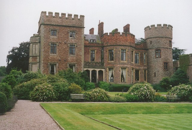 Rowton Castle Picture taken from within the Castle grounds. The castle is now an Hotel.